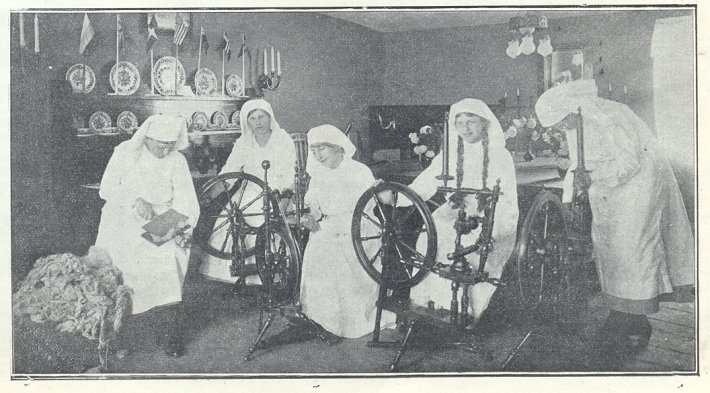 Den engelske Skole, Nysted, Denmark (1919)